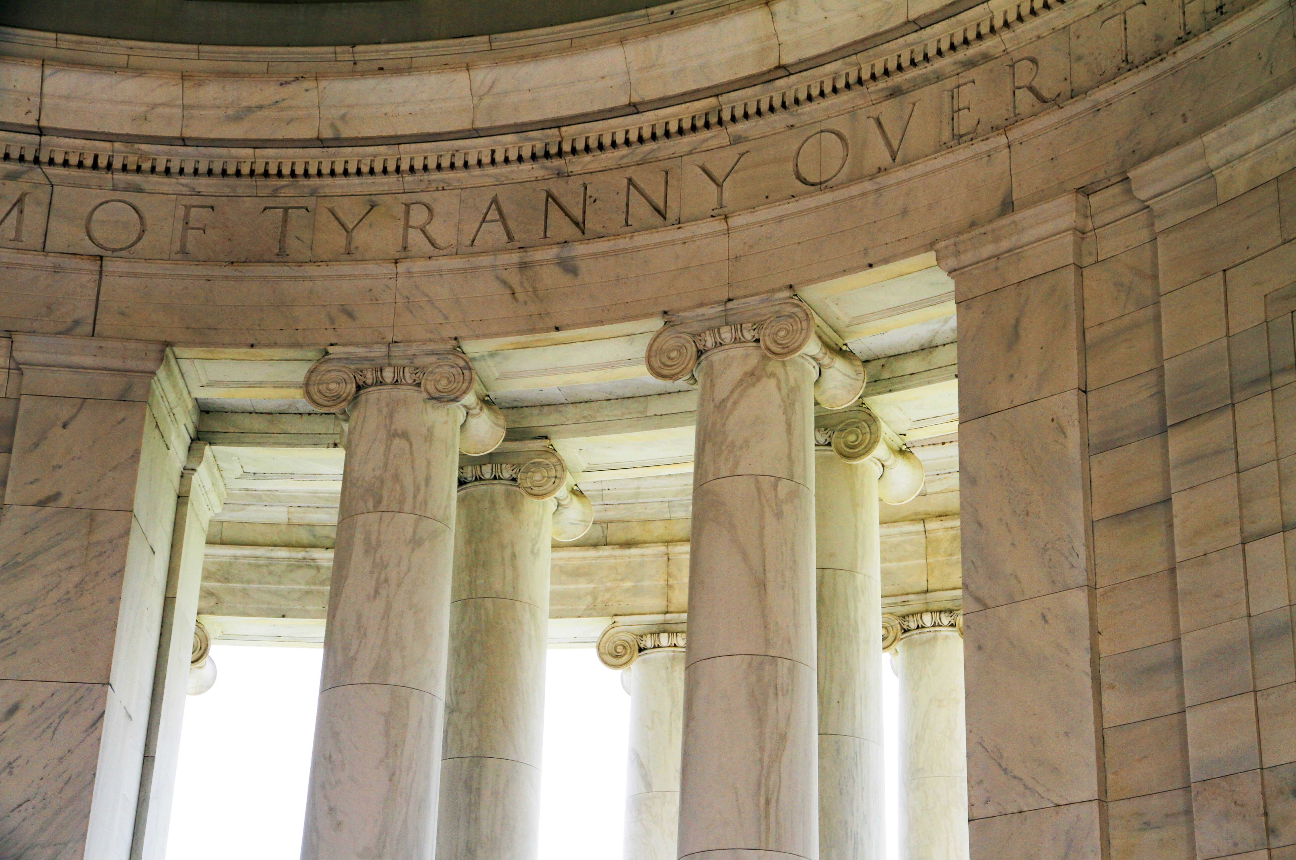 Thomas Jefferson Memorial